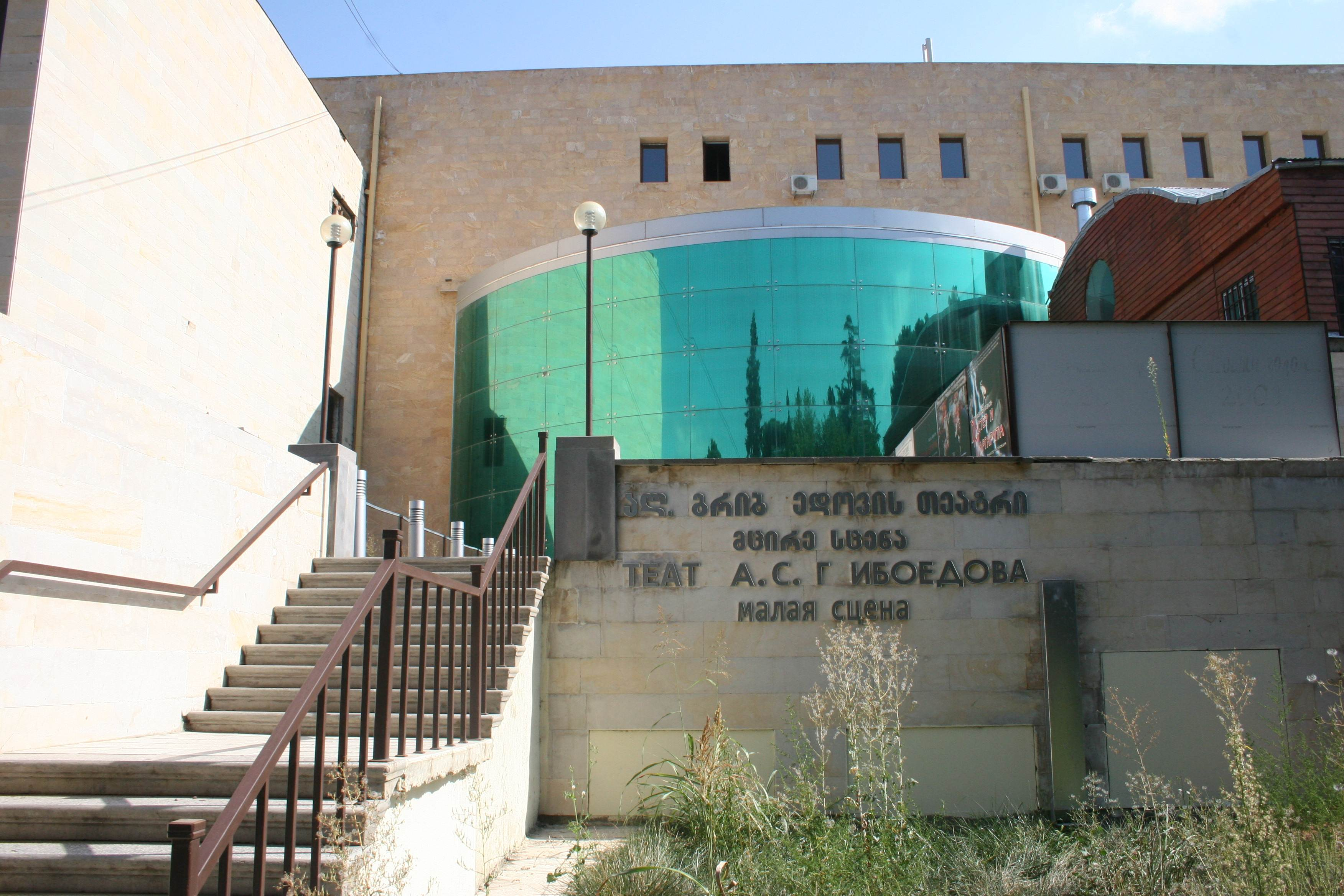 Small Hall of Griboedov Theatre of Russian Drama, Tbilisi, Georgia.